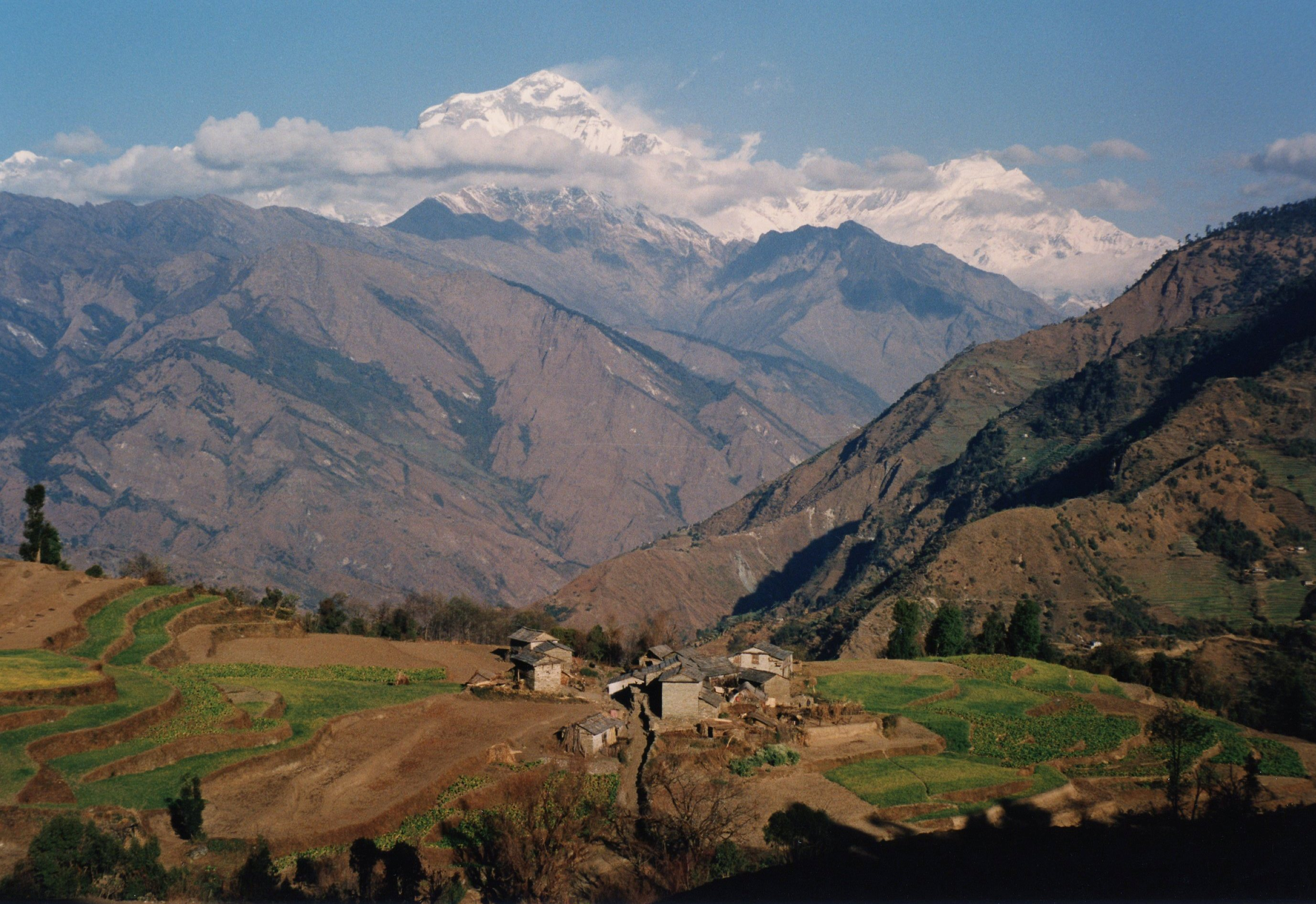 View of Dhaulagiri mountain from Ghorepani, Nepal